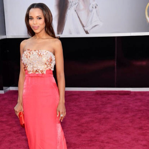 Washington at the 2013 Oscars